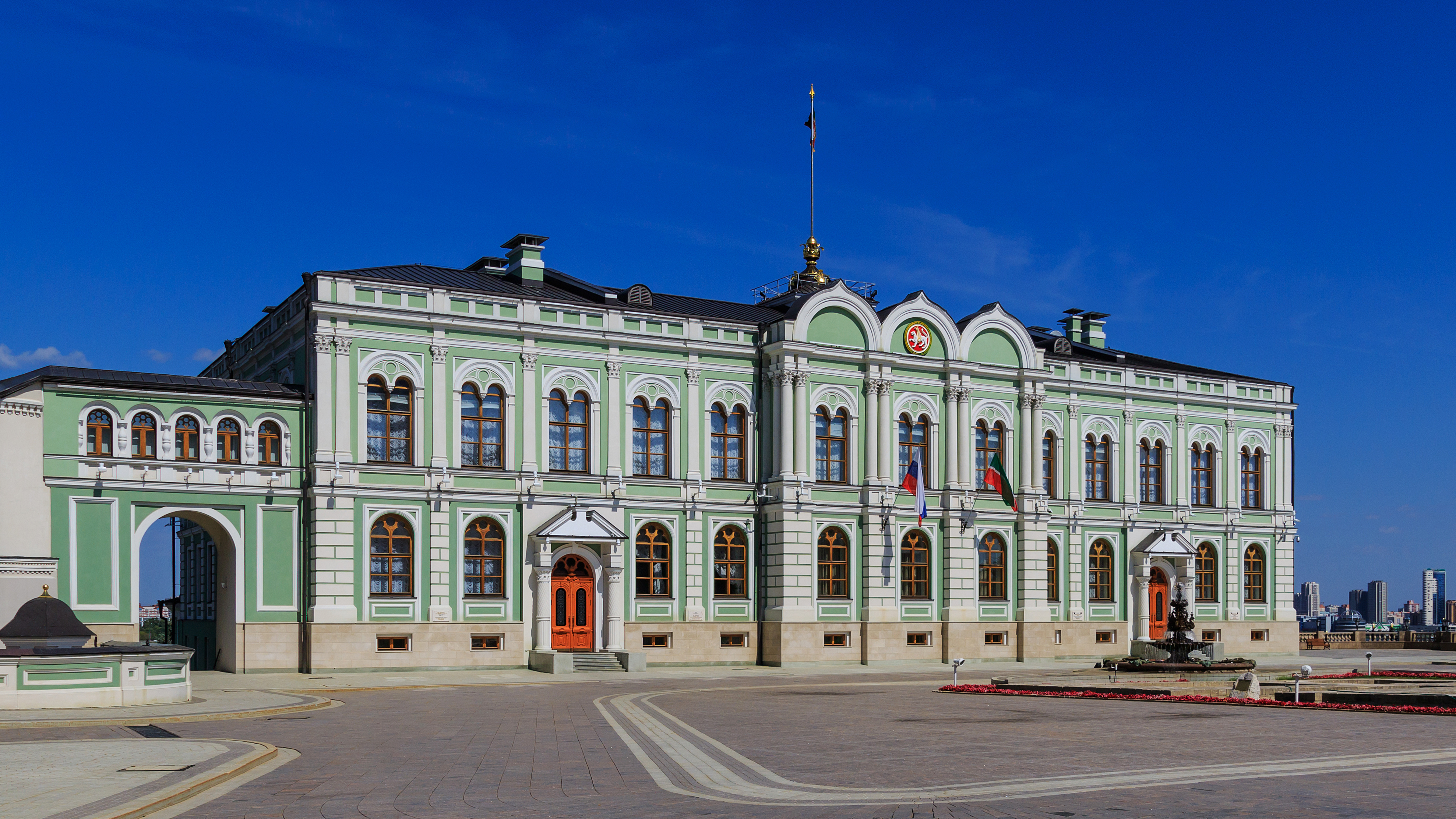 Presidential Palace (former Governor's Palace) in the Kremlin in Kazan, Russia